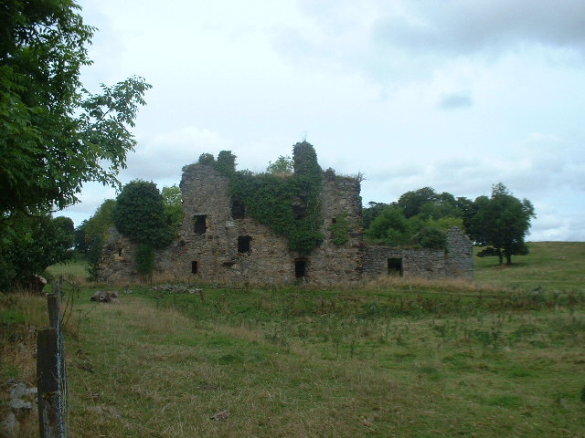 Gight Castle. The ruined remains of the 16th-century L-plan tower house of Gight Castle are located on the north bank of the River Ythan, 6 km east of Fyvie in Aberdeenshire. The castle was associated with the Gordon family.